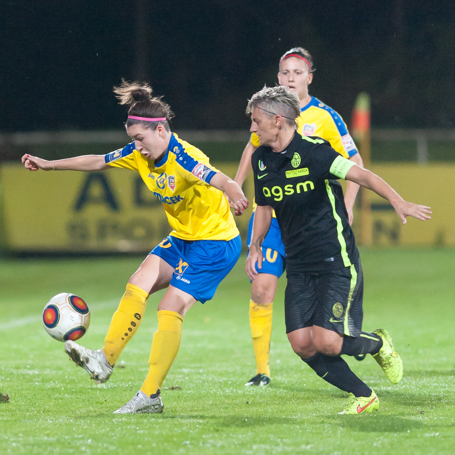 UEFA Women's Champions League FSK St. Pölten-Spratzern vs ASF CF Verona, St. Pölten, 2015-10-07